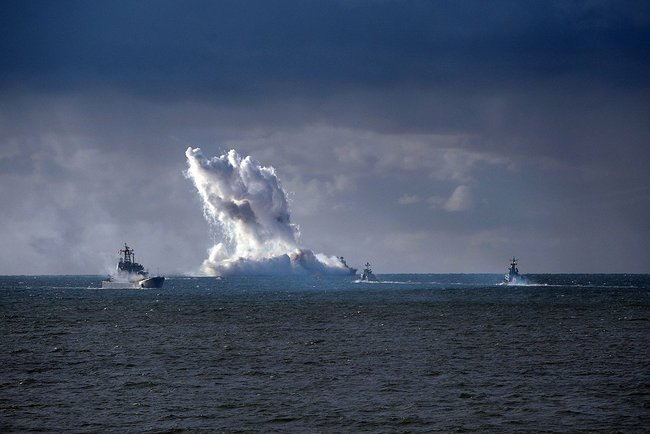 The final stage of the Zapad-2013 Russian-Belarusian strategic military exercises.